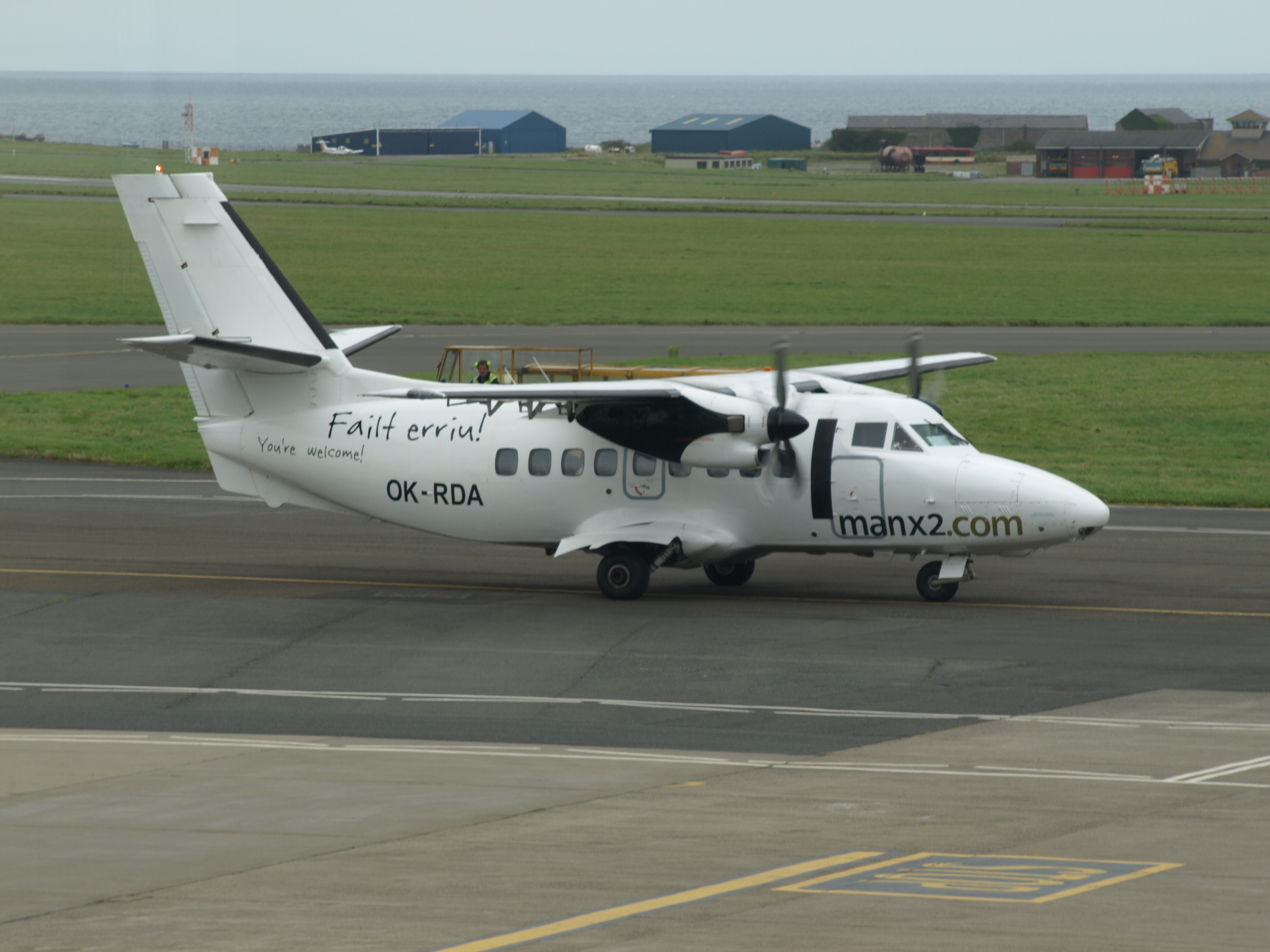 Manx2 OK-RDA